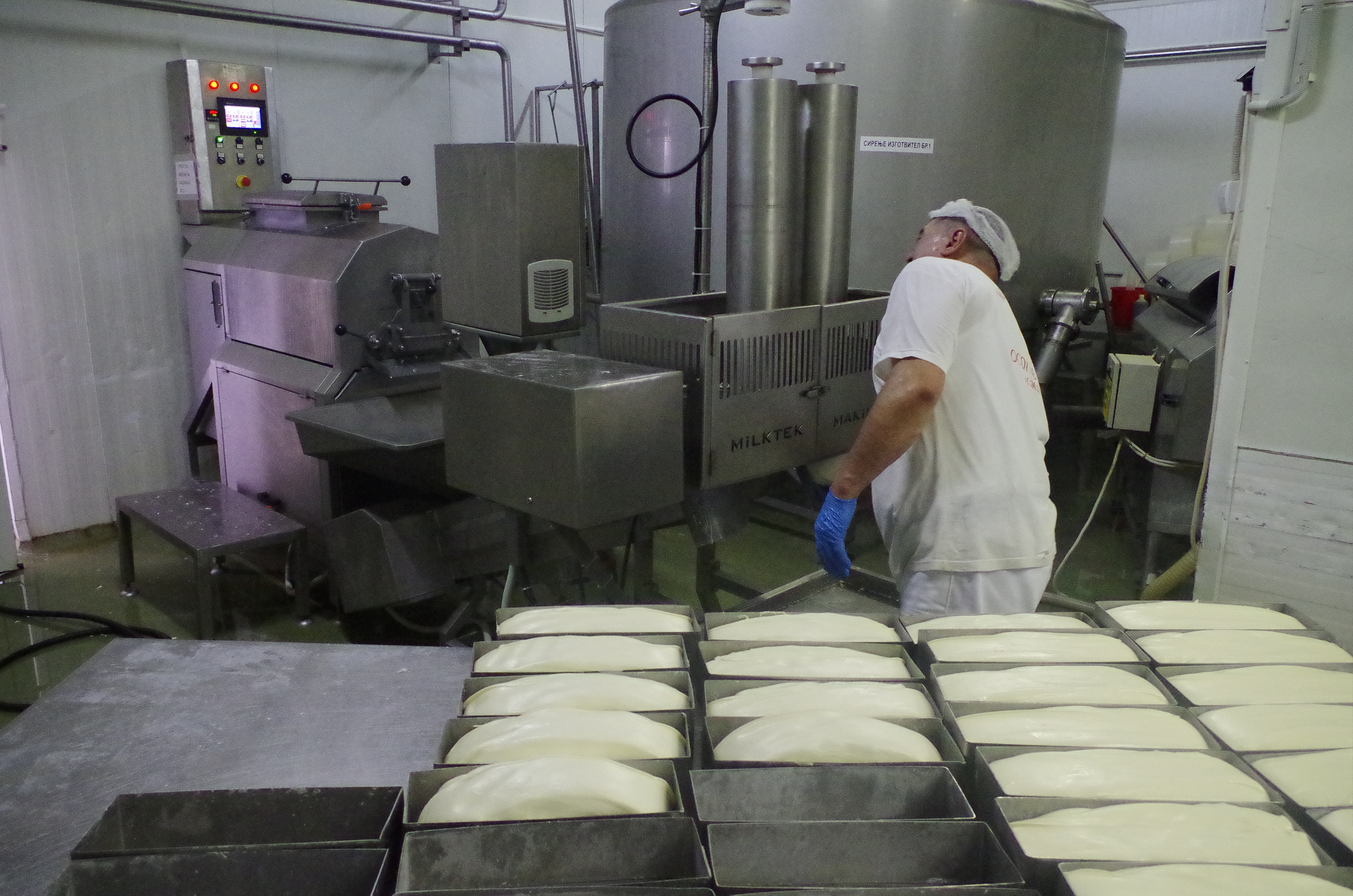 Dairy Osogovo Milk in Sokolarci, Macedonia